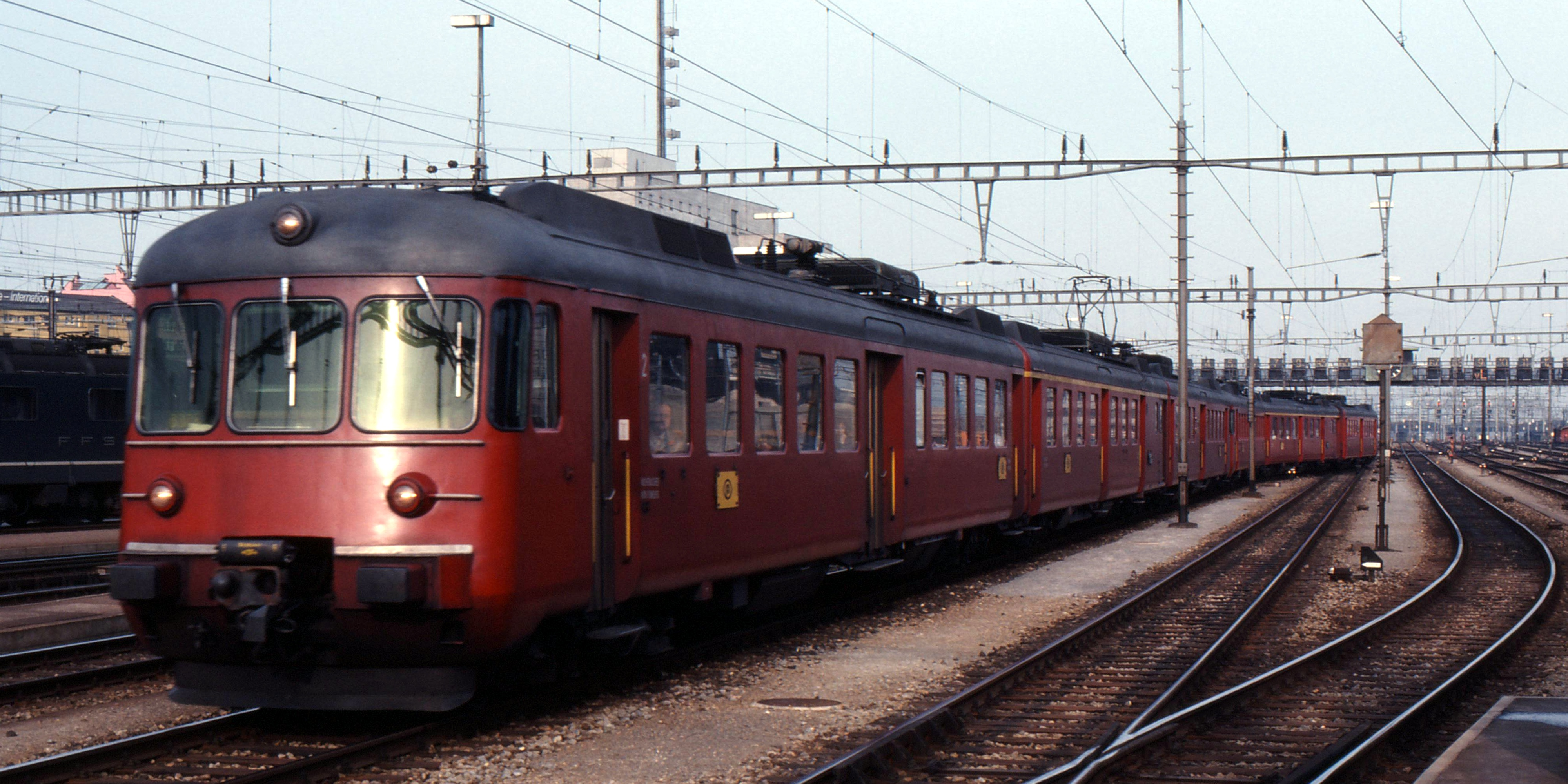 Swiss Rail RABDe 12/12 built 1966 2240 kW Nickname "Mirage"